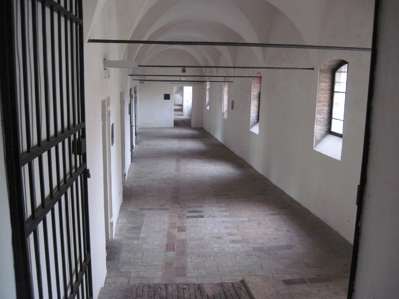 Coperta road, Ferrara